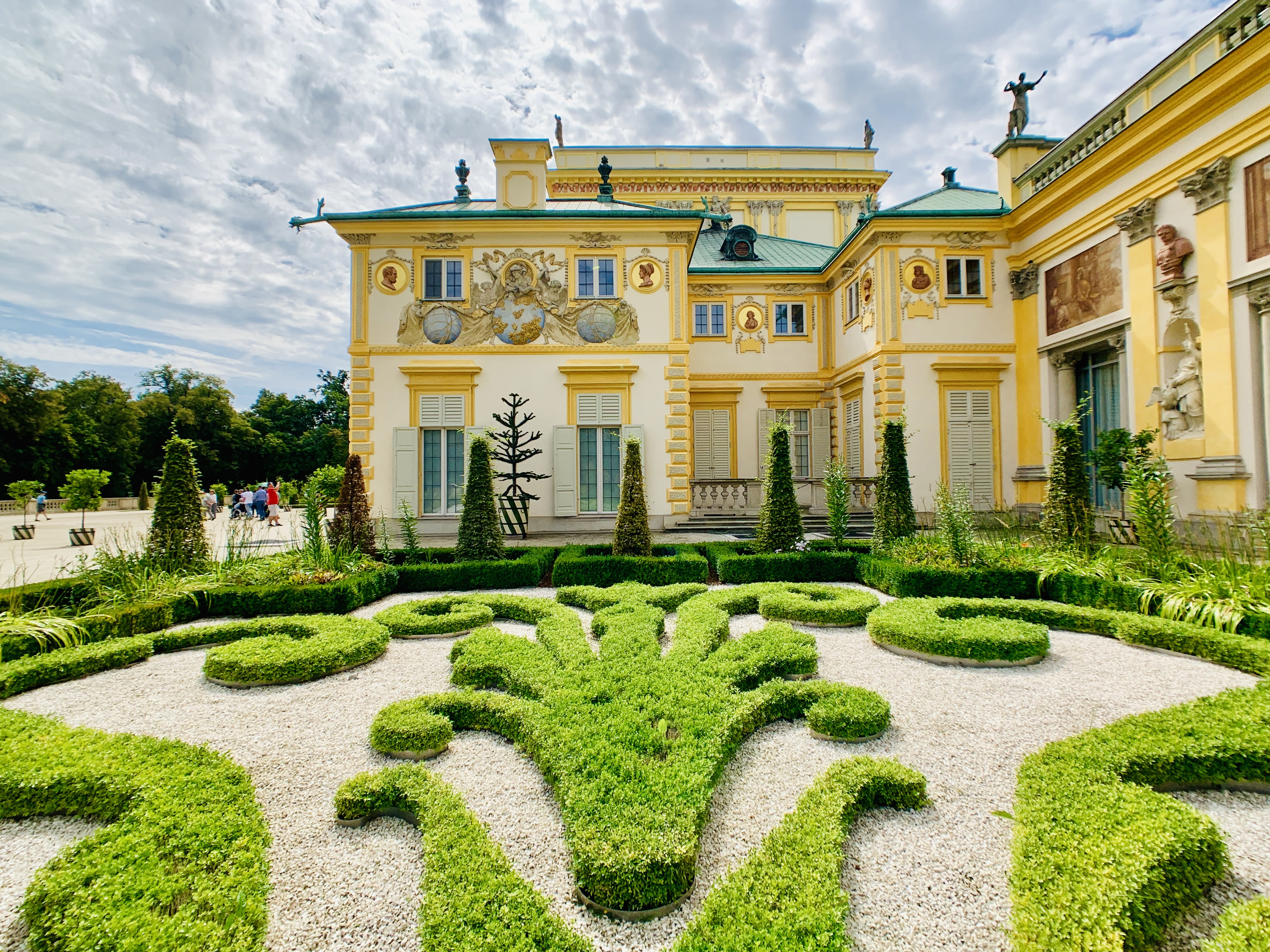 Upper Baroque Garden in Wilanów Park in August 2019